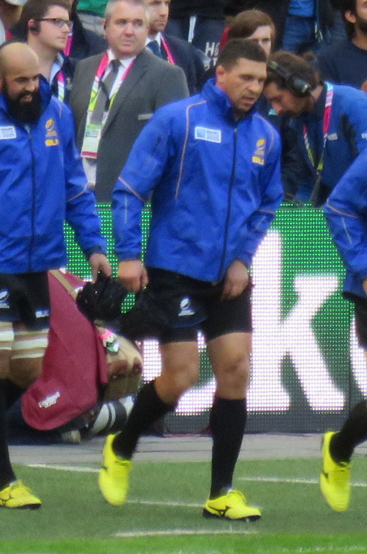 Romania international rugby union footballer Ovidiu Tonița before 2015 Rugby World Cup game Ireland vs Romania at Wembley Stadium, London.